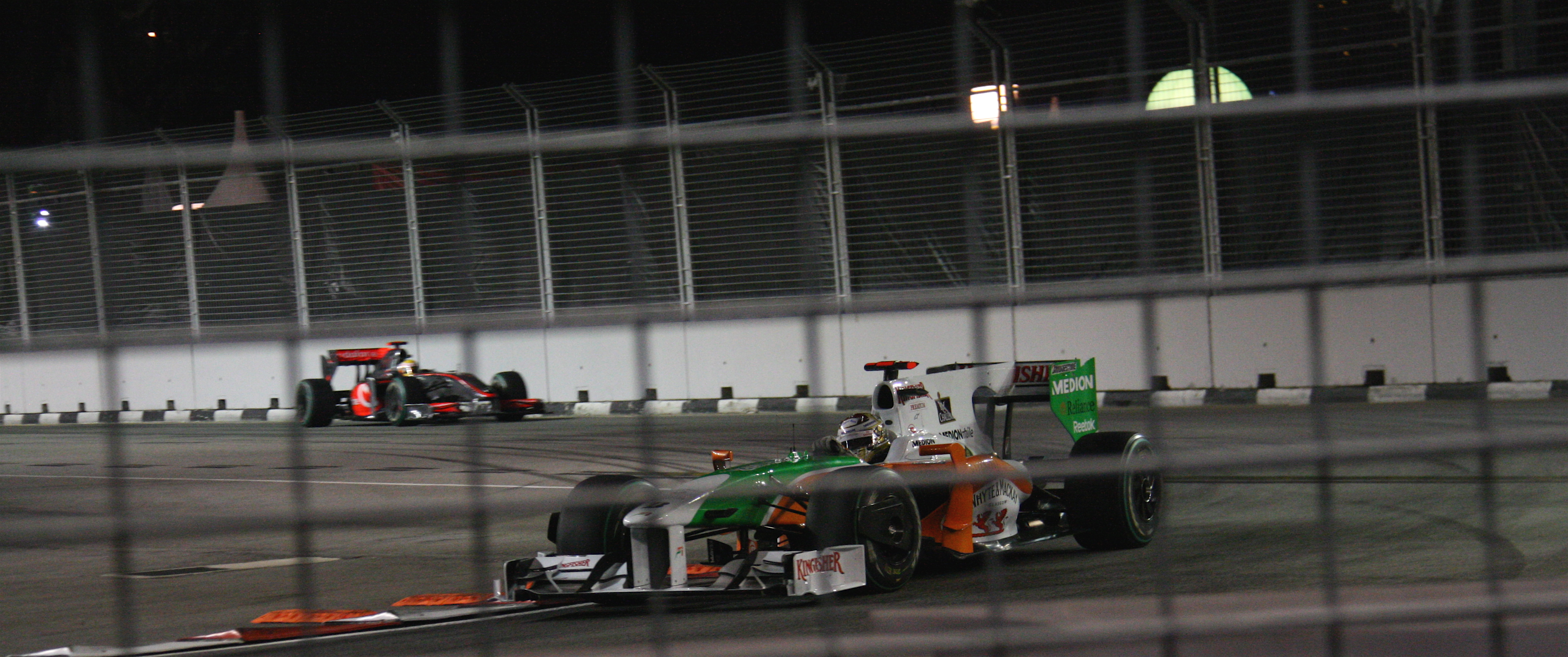 Adrian Sutil driving for Force India at the 2009 Singapore Grand Prix.